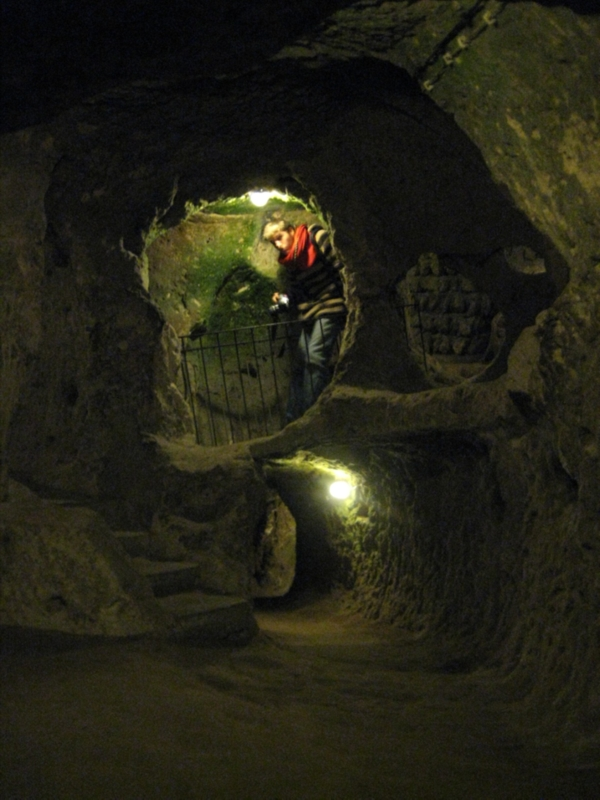 The tunnels of undeground city Derinkuyu. A modern man 1,90 hight can pass only crouching